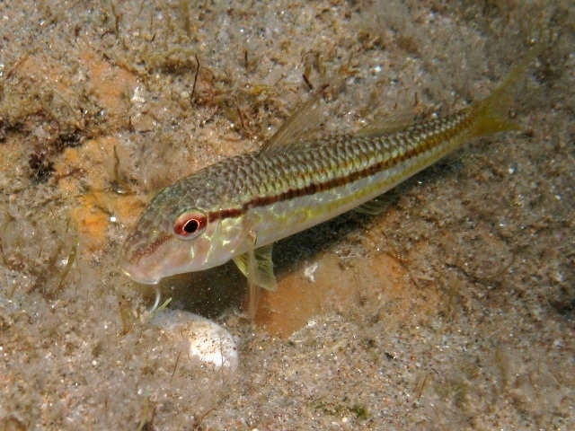 Mullus barbatus photographed in Paros, Greece.